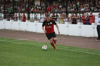 Left side attack of Dorog